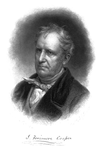 Illustration of James Fenimore Cooper